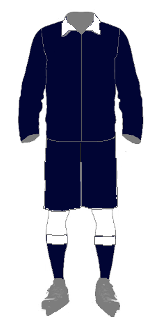 Representation of the 1921 uniform for team Victoria, ice hockey Australia. Other information This is completely my own work, created to provide a representation of uniform worn by the 1921 state team for Victoria - based on old photographs and descriptions of the uniform. Please feel free to share and use this file.